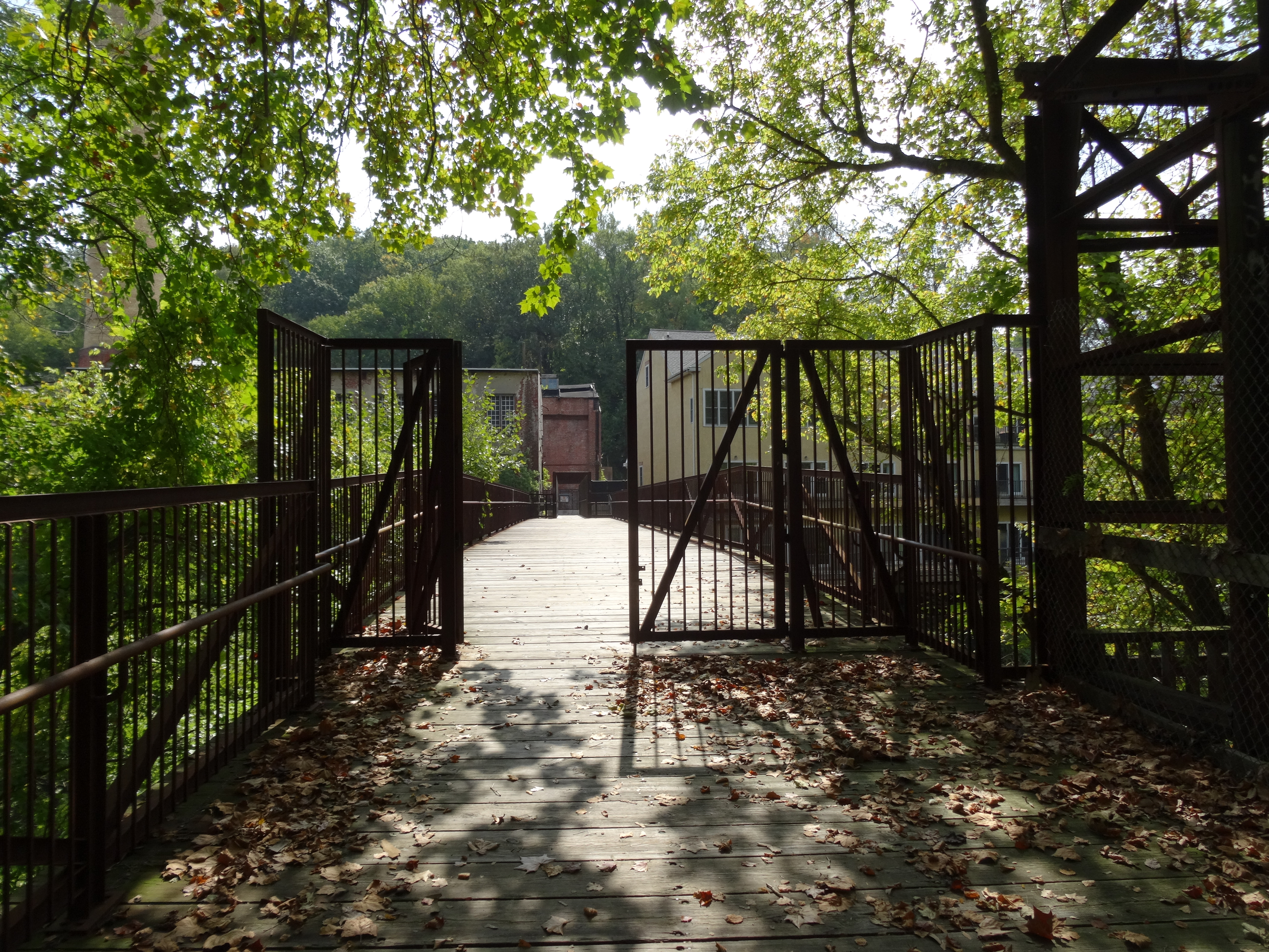 Bridge across the Brandywine to Bancroft Mills in Alapocas Run State Park.